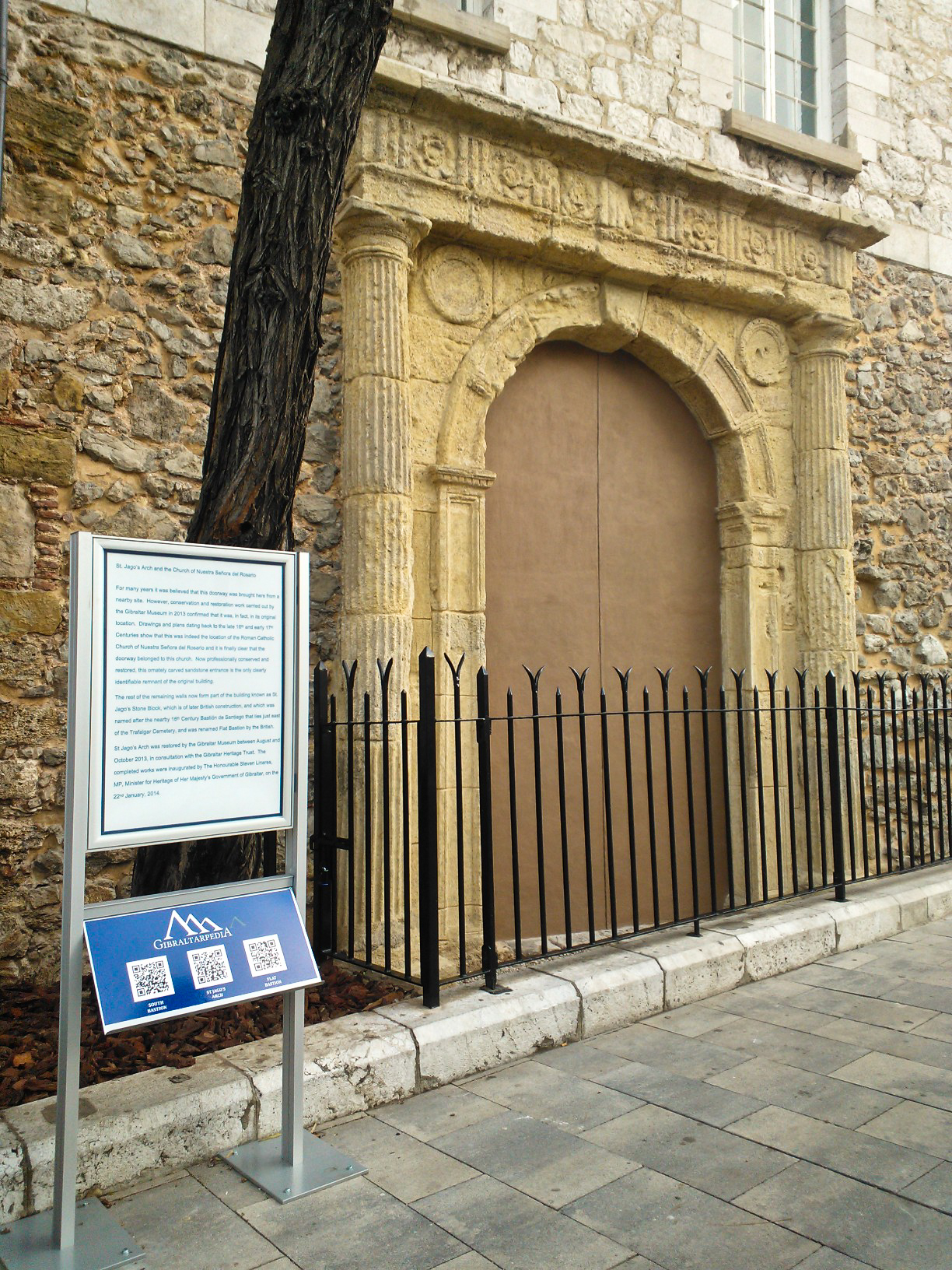 St. Jago's Arch in Gibraltar with QRpedia codes for Gibraltarpedia